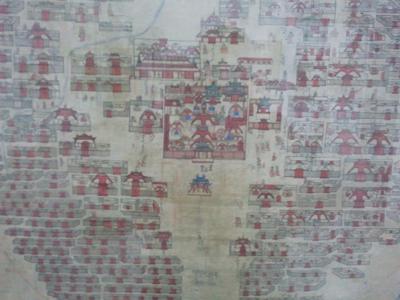 19th century painting of Urga (Ulaanbaatar) by Mongolian artist Balgan. Mineral pigments on cotton. Detail of the central Zuun Khuree temple complex in Urga. It was the biggest and most important part of Urga. Pilgrims would go around circling, praying full length on the ground as they went. Here we can see the long Bat Tsagaan temple built by Zanabazar in 1654 as a movable square temple built in the Mongolian architectural style. Also seen are the three-storey Maidar temple (1834) with a ger-shaped top floor, the movable golden-roofed Dechingalba temple (1739) and the Ger-Temple of Abtai Khan (1585). The central temples are surrounded by the residences and temples of the 30 monastic schools. All these temples were completely destroyed in 1937. Only one ger-shaped temple from 1778 survives as the Daschoilon Monastery. A more recent ger-shaped temple dating from 1903 was converted into the State Circus.